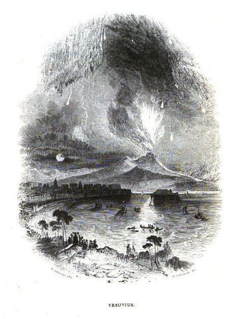 Illustration of Mount Vesuvius from Charles Latrobe's The Solace of Song (1837).